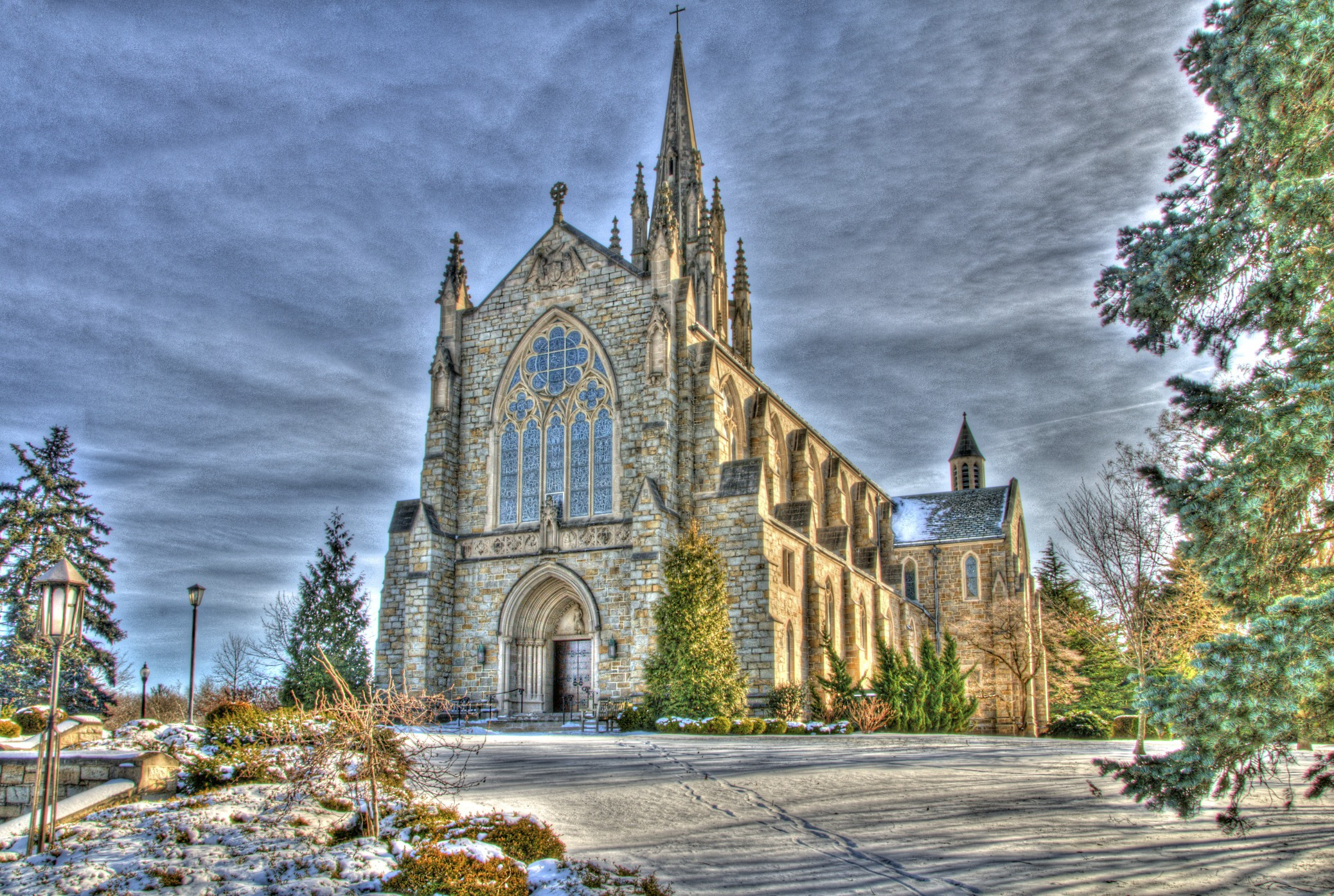 The Chapel is the culmination of 30 years’ worth of dreaming, planning, and working by Dr. William Mann Irvine, founder and first headmaster (1893–1928) of Mercersburg Academy, and his wife Camille. Designed by Ralph Adams Cram (1863-1942; of Cram and Ferguson), the Chapel was dedicated in 1926 to the memory of Mercersburg alumni killed in World War I. It was rededicated at the Centennial Celebration of the Academy in 1993 as the Irvine Memorial Chapel. The Chapel spire, a replica of St. Mary the Virgin at Oxford, contains one of 163 traditional carillons in the United States.